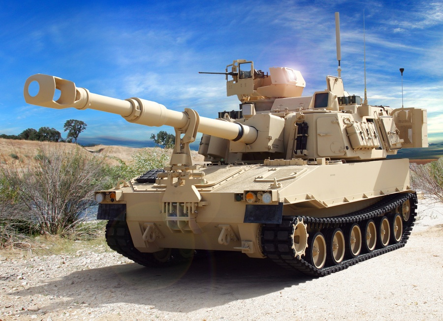 The M109 Paladin Integrated Management, or "M109 PIM," is slated to begin low-rate initial production by 2013. The 40-ton, next-generation 155mm Howitzer artillery cannon is able to fire precision rounds, accommodate additional armor protections and power more on-board electrical systems.